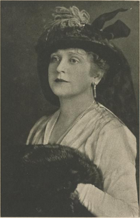 Effie Shannon, photograph by Sarony, from a 1921 publication.